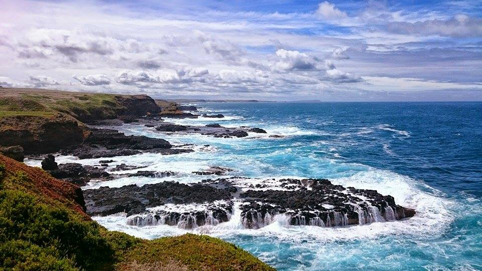 Phillip island's waves VIC Australia